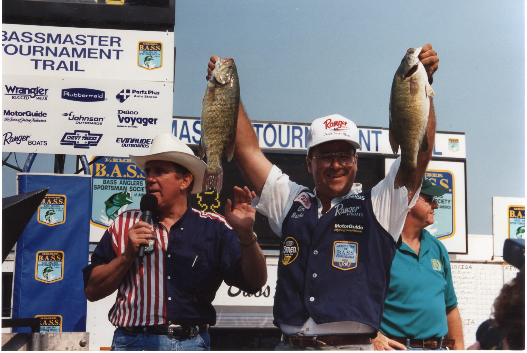 Kim Stricker BASS Win on Lake St. Clair, MI